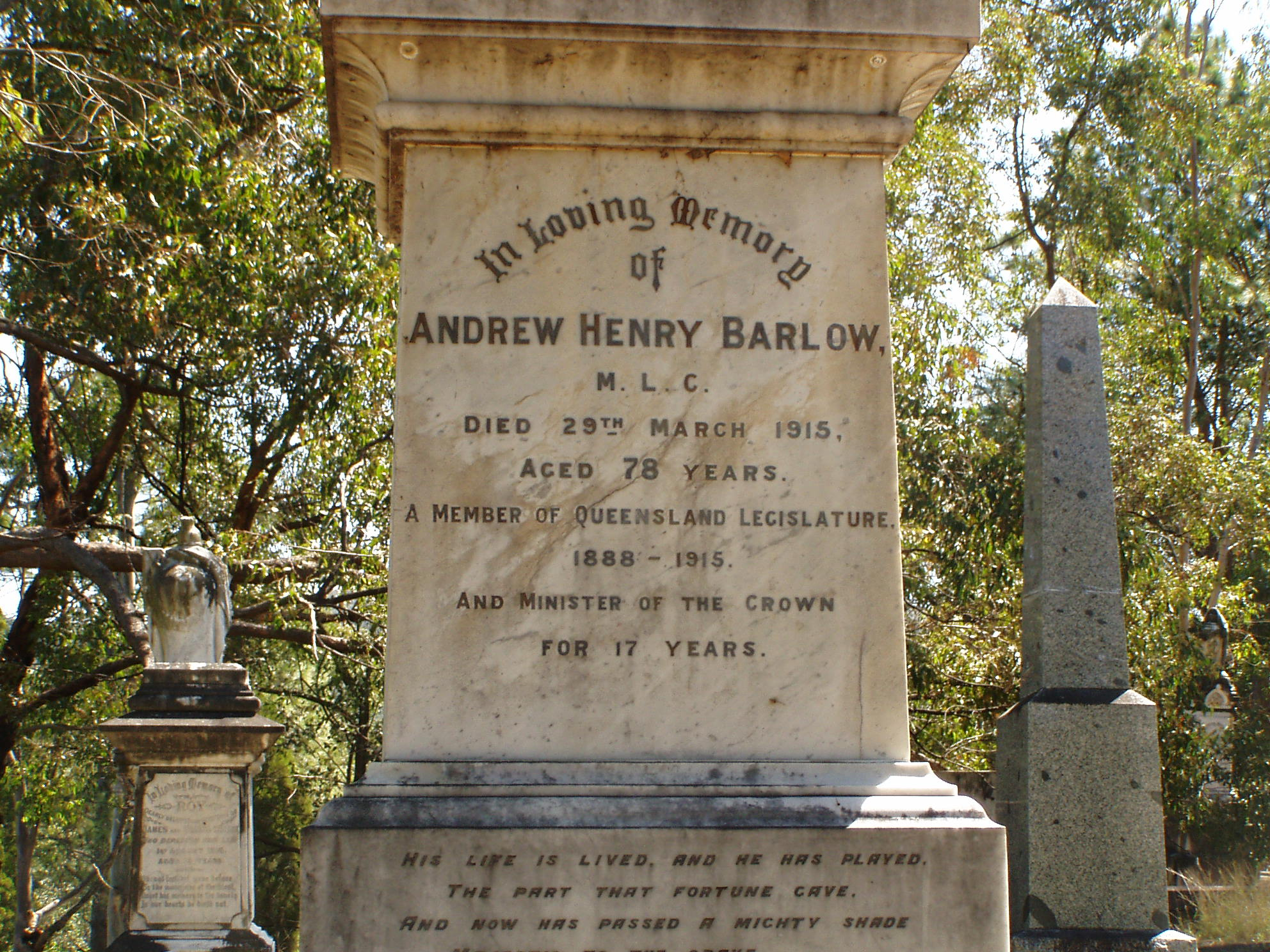 Andrew Henry Barlow Headstone